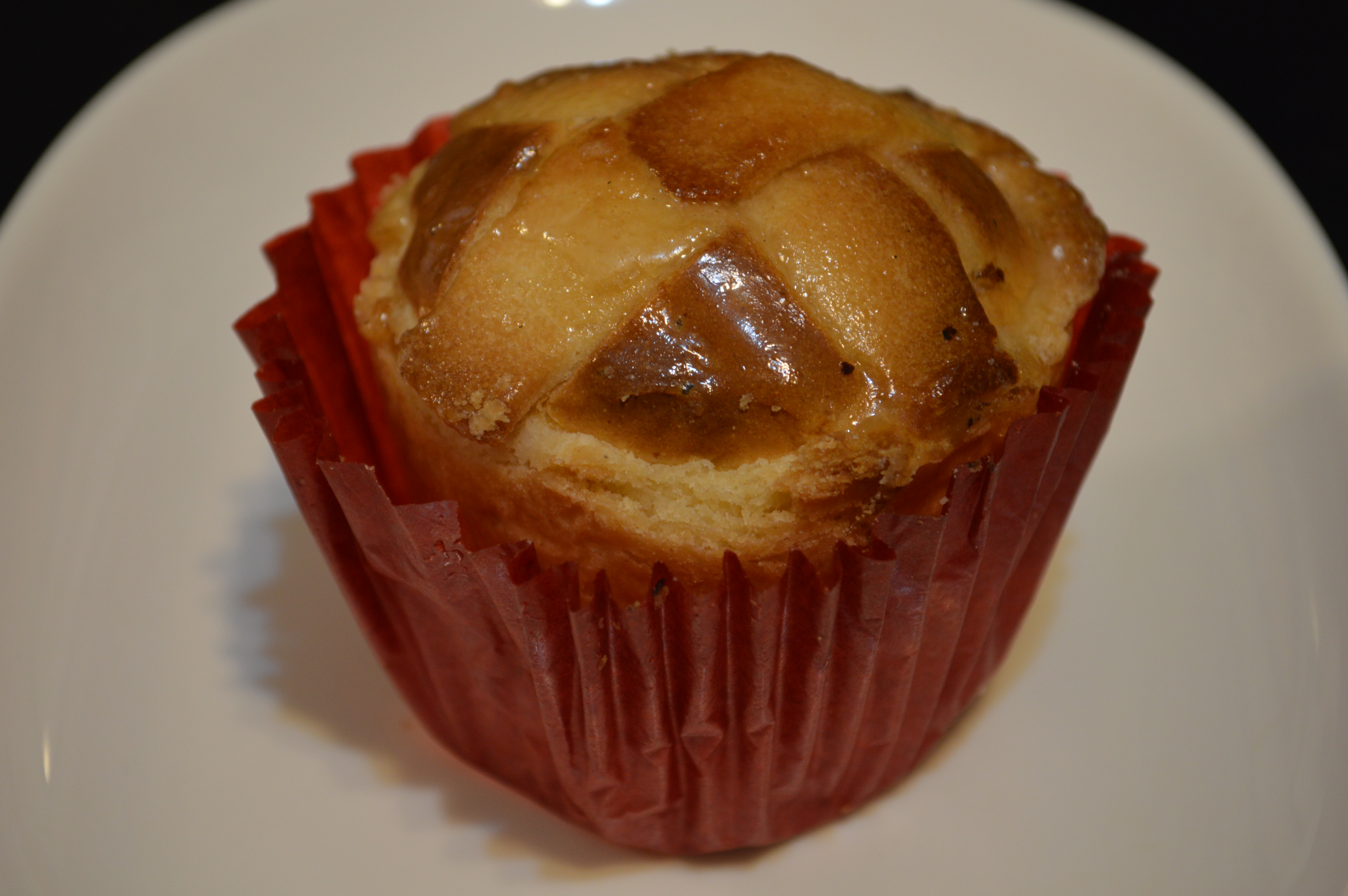 "cubilete de piña" with pineapple filling from the Ideal Bakery in the historic center of Mexico City